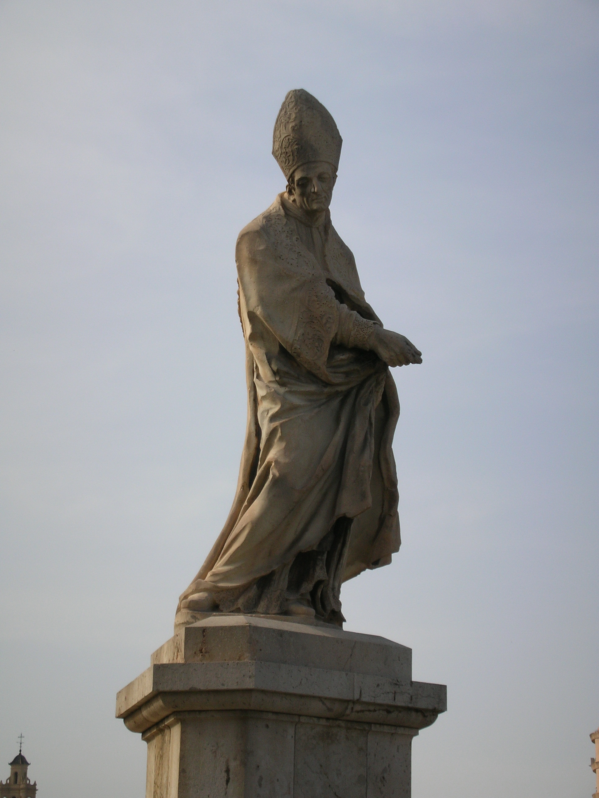 Statue of St. Tomás de Villanueva, Giacomo Antonio Ponsonelli, in the Trinity Bridge, Valencia